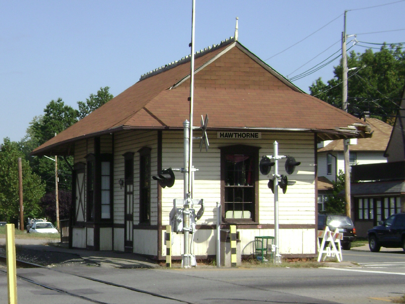 The New York, Susquehanna and Western Railway's station in Hawthorne, New Jersey is seen on October 4, 2009. Damage to the station's southeast corner has been caused by trucks making a right turn from Royal Ave onto CR 654 Diamond Bridge Ave.